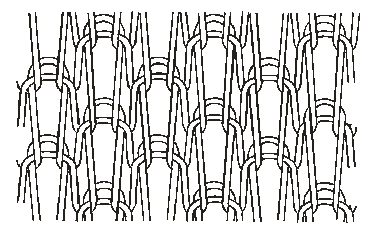 Loop structure of the knitted fabric "Lacoste"